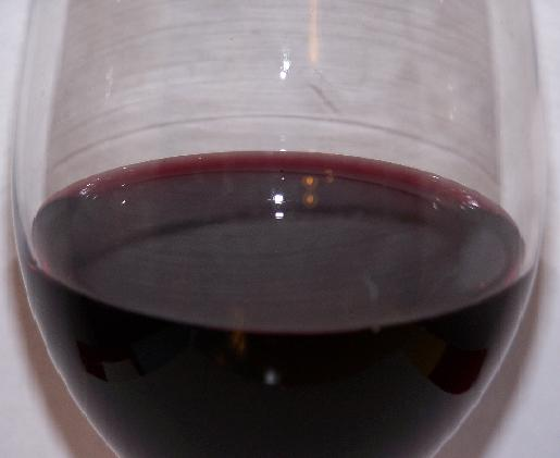 A glass of Carménère wine.